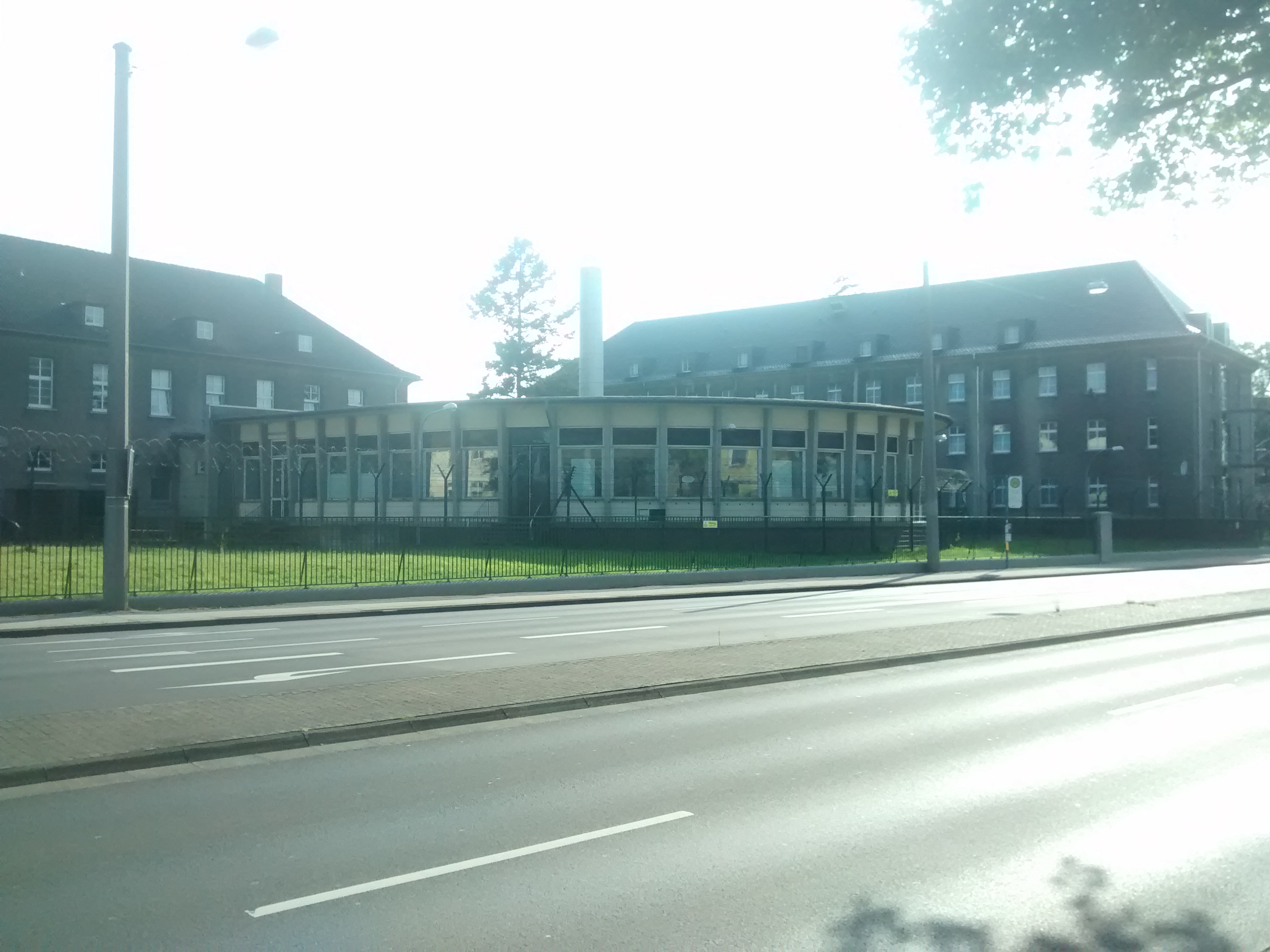 British Forces Germany (www-bfgnet-de) are posessing a former german military building. 2019 they planningly want to leave.